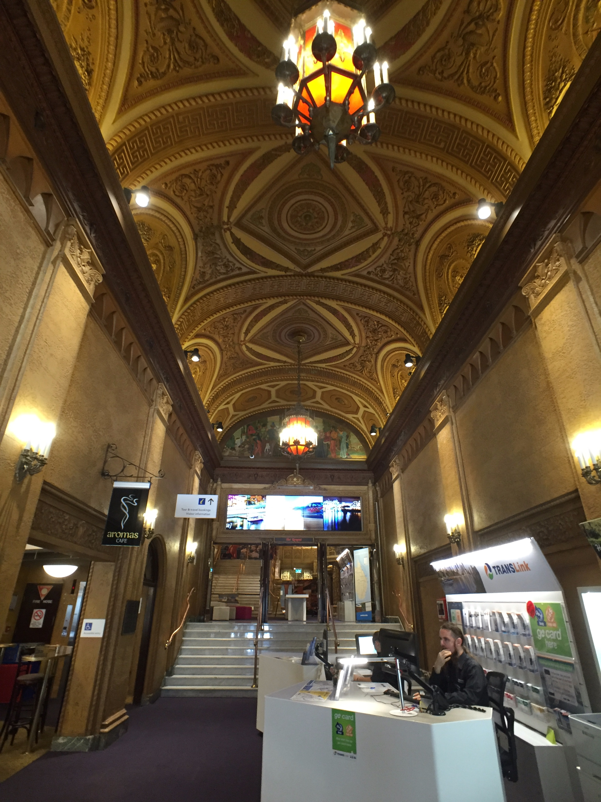 Regent Theatre foyer, Brisbane